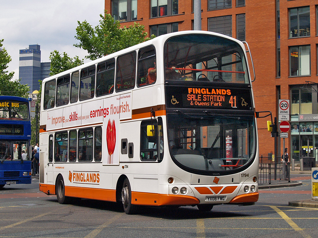 Finglands Coachways Limited 1794 (YX08 FWG), a 2008 built H45/29F Volvo B9TL/Wright Eclipse Gemini turning out of Piccadilly Gardens bus station, Manchester onto Portland Street on route 41 from Manchester Piccadilly Gardens to Sale (tram stop) via West Didsbury and Northenden.